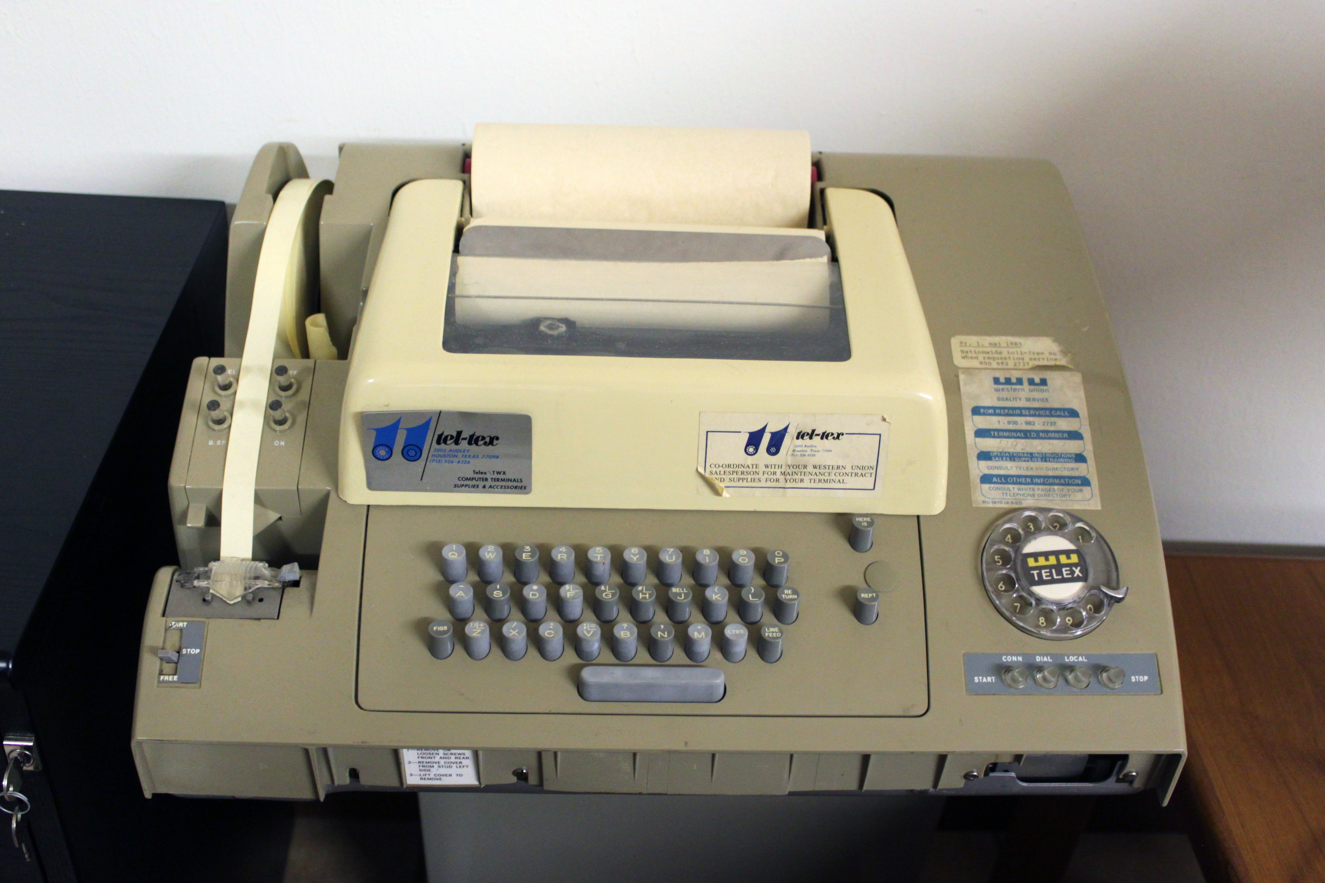 ASR 32 Telex machine. Note three row keyboard and five level paper tape. Author's Flickr description: "Upgraded this photo with one from a real camera instead of a camera phone on June 12, 2010. Enjoy. This machine is a very clean example of increasingly rare technology from the 1950s, through 1970s. I'm sure there are still some of these in use in odd locations around the world. Surprisingly, as best as I can determine, the TWX network still exists and is used.This particular machine was used by a furniture store to order stock."The paper tape supply reel is at the upper left; the tape is lying on top of the punch cover. The tape reader is at lower left. The panel to the right of the keyboard has a rotary telephone dial for connecting the machine to various destinations via the TWX network. Printing paper is supplied from an 8.44 inch wide roll, visible top center, and is fed through the printer mechanism with rubber pinch rollers. This machine is missing the trim cover plate on the front of the console.